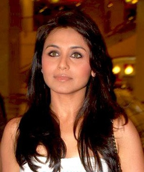 Rani Mukerji and Sabyasachi Mukherjee unveil Hi Blitz issue in 2009